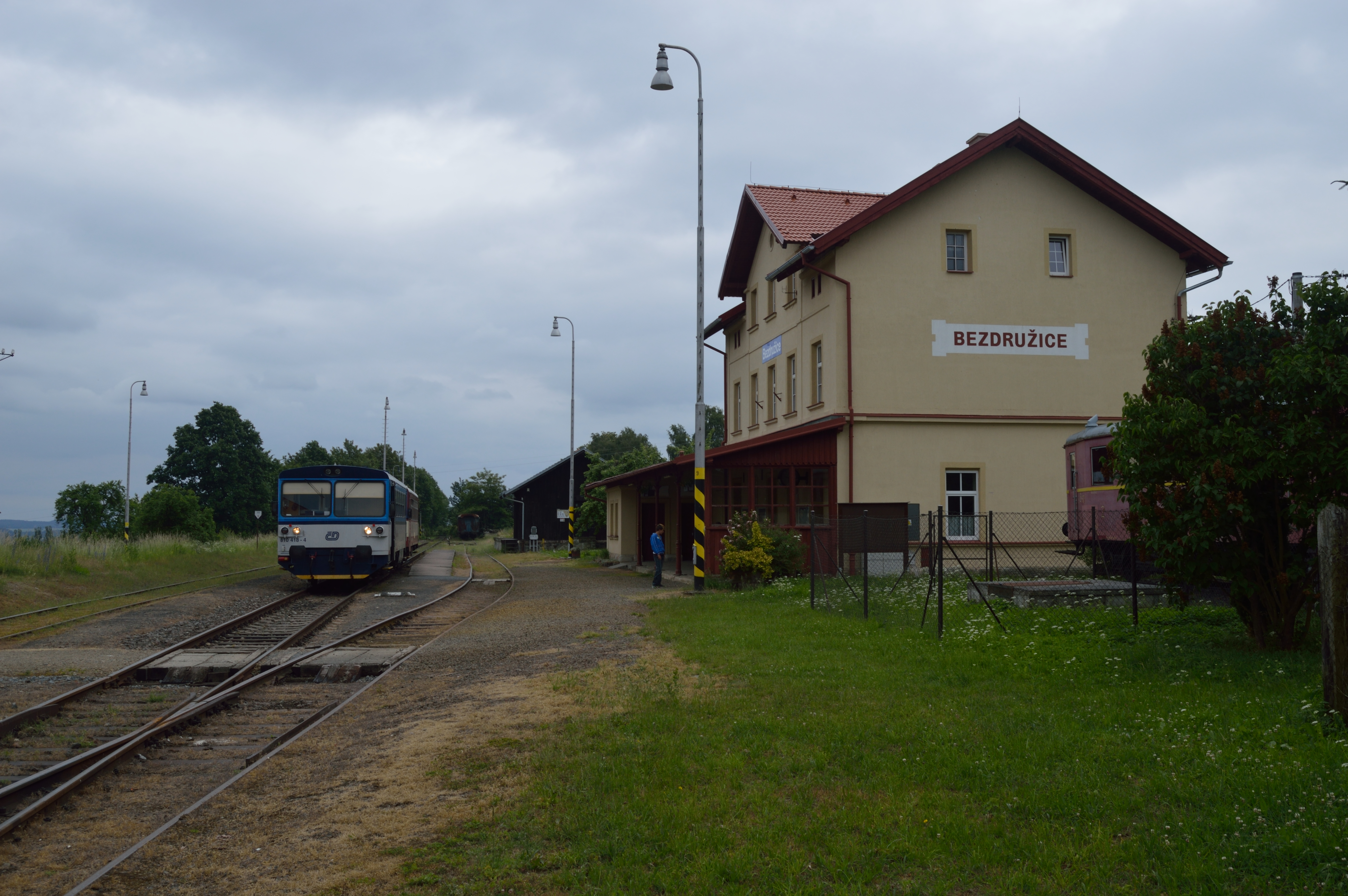 Seen at Bezdružice on 21 June 2015, 810.418 has arrived in on train Os27320, 16:35 Plzeň hl.n. to Bezdružice. The 810 then ran round the trailer for its return journey, once very common at dead end branches, but now very much in decline.